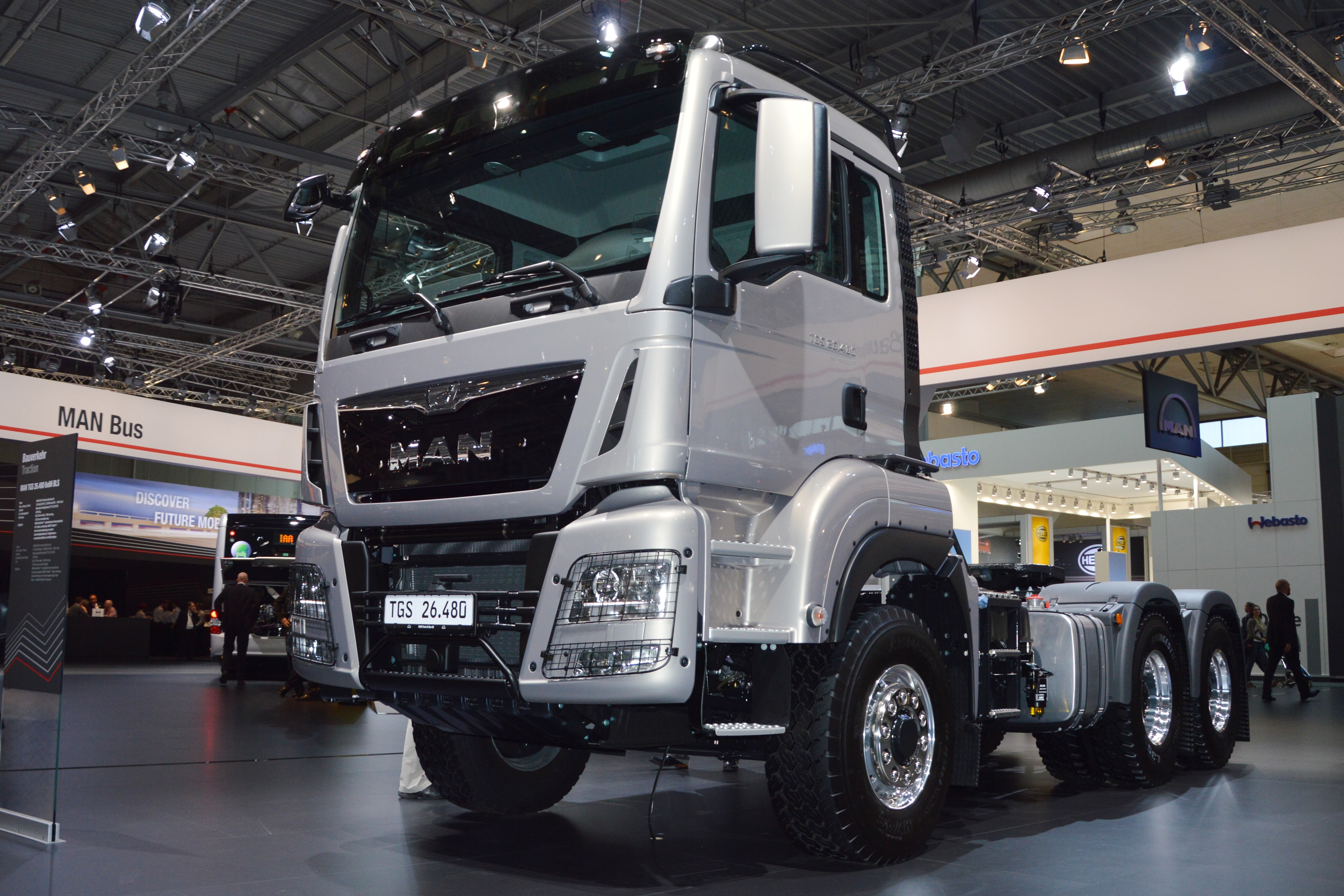 MAN TGS 26.480 6x6H BLS truck tractor. Engine: MAN D2676 Common Rail (Euro 6). Power: 353 kW (480 hp). Torque: 2,300 Nm at 930 - 1,400 1/min Manual gearshift system (ZF). Permissible Gross Weight: 28 to.